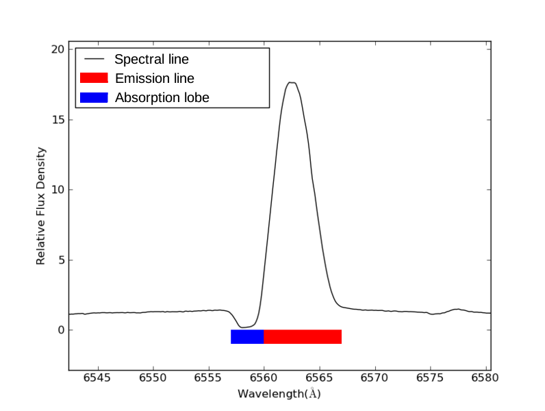 Depiction of the classic P Cygni line profile from P Cygni's spectrum (data obtained from here) for the H-α line.